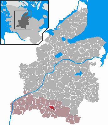 Locator maps of municipalities in Schleswig-Holstein - District Rendsburg-Eckernförde